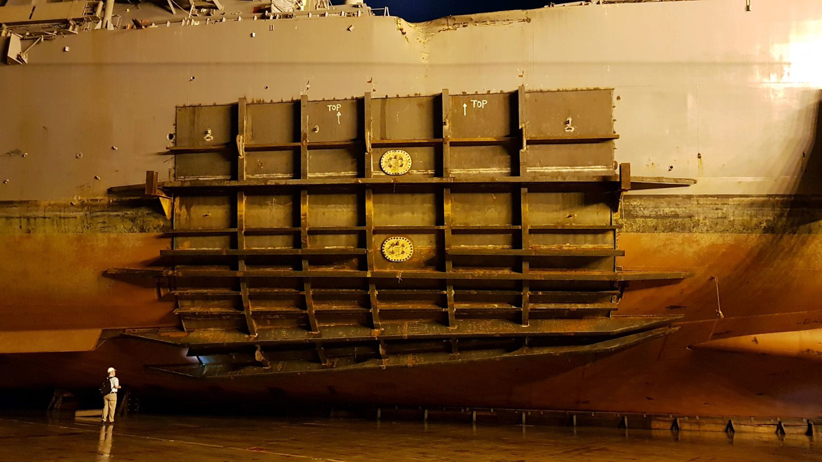 171006-N-OU129-145AT SEA (Oct. 6, 2017) The Arleigh Burke-class guided missile destroyer USS John S. McCain (DDG 56) is loaded on heavy lift transport MV Treasure. Treasure will transport McCain to Fleet Activities Yokosuka for repairs. (U.S. Navy Photo by Mass Communication Specialist 2nd Class Joshua Fulton/Released)